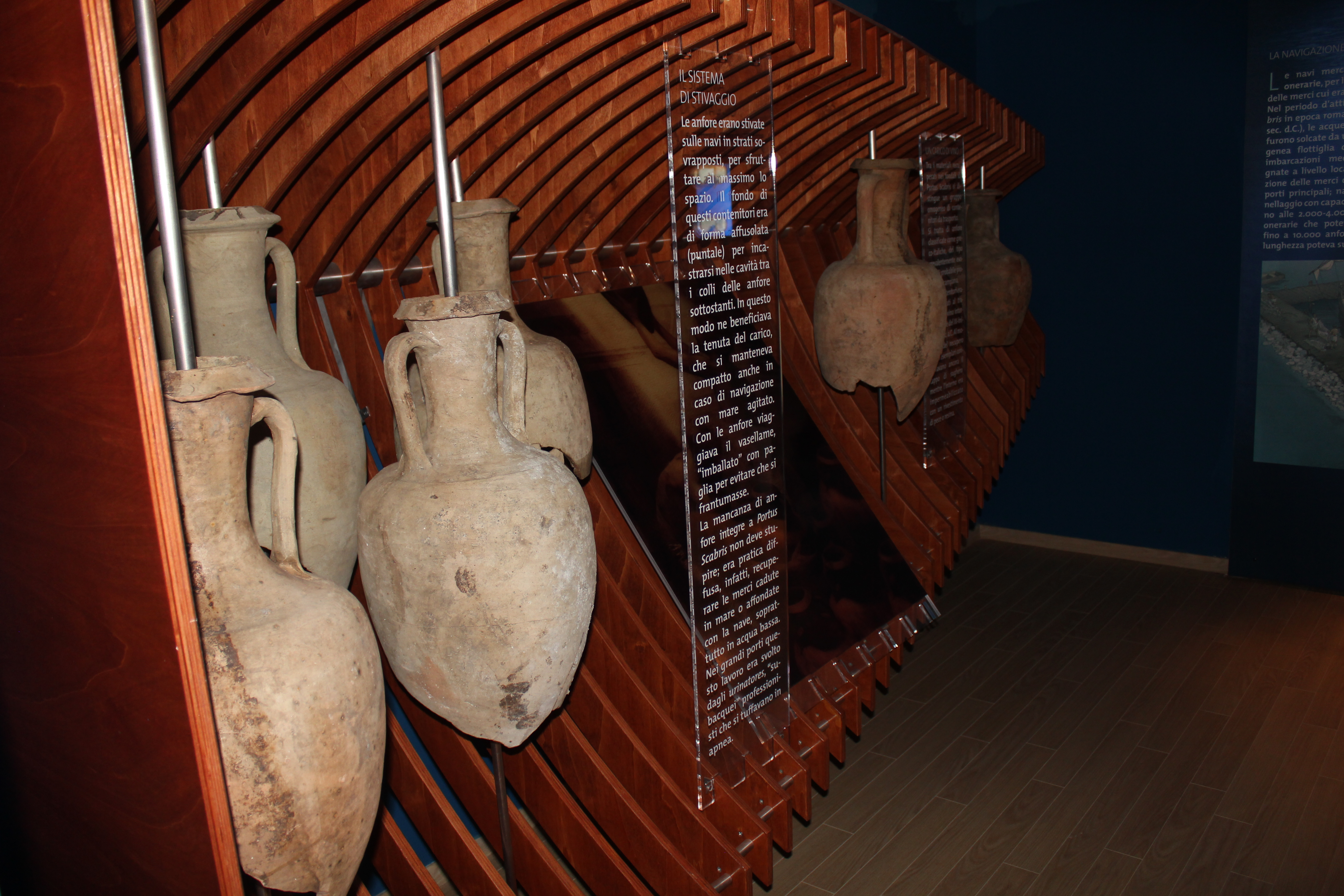 Archeological Museum of Portus Scabris, Puntone di Scarlino